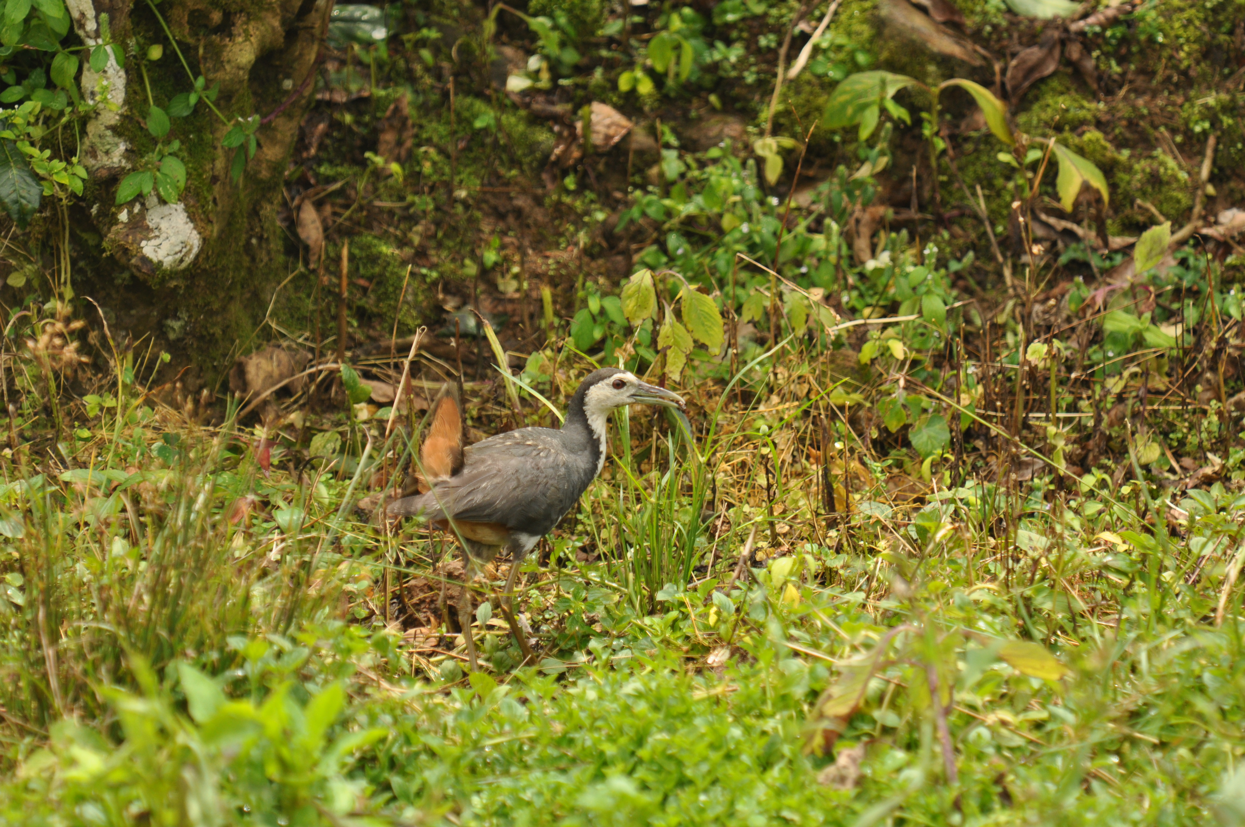 White-breasted Waterhen at the edge of a swamp in a tea plantation